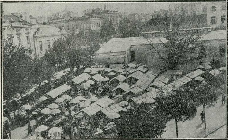 Green market Cvetni trg in Belgrade, Serbia, 1930. Srpski (latinica): Pijaca Cvetni trg u Beogradu, publikovana slika u Beogradskim opštinskim novinama 1930. godine